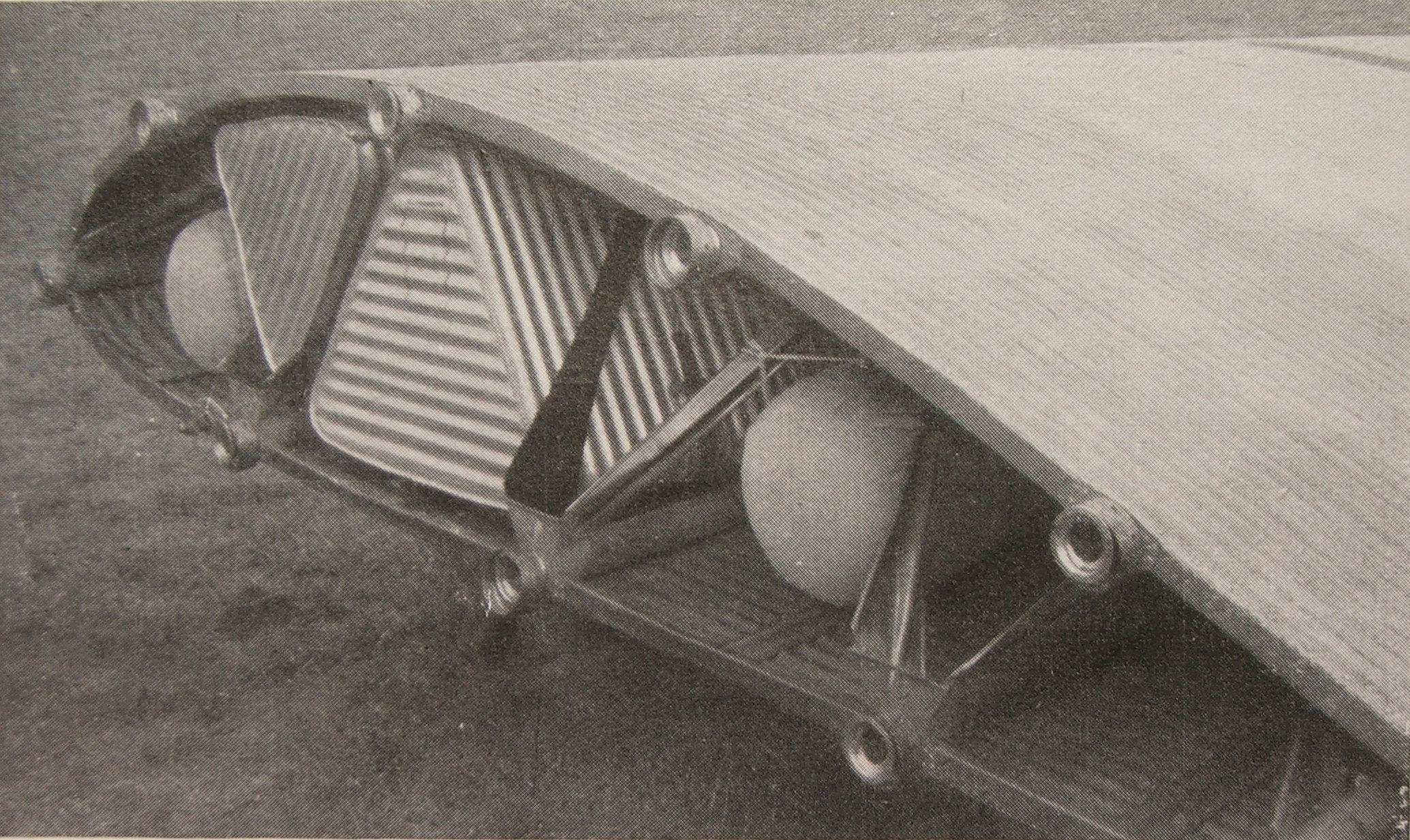 Wing with Tanks of Junkers W33